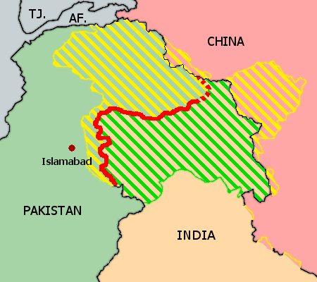 Cachmire border between India and Pakistan